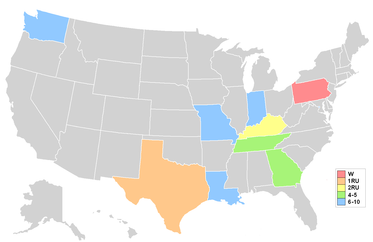 Map showing placements at the Miss Teen USA 2000 pageant. Key on graphic shows colour coding for break down of placements.